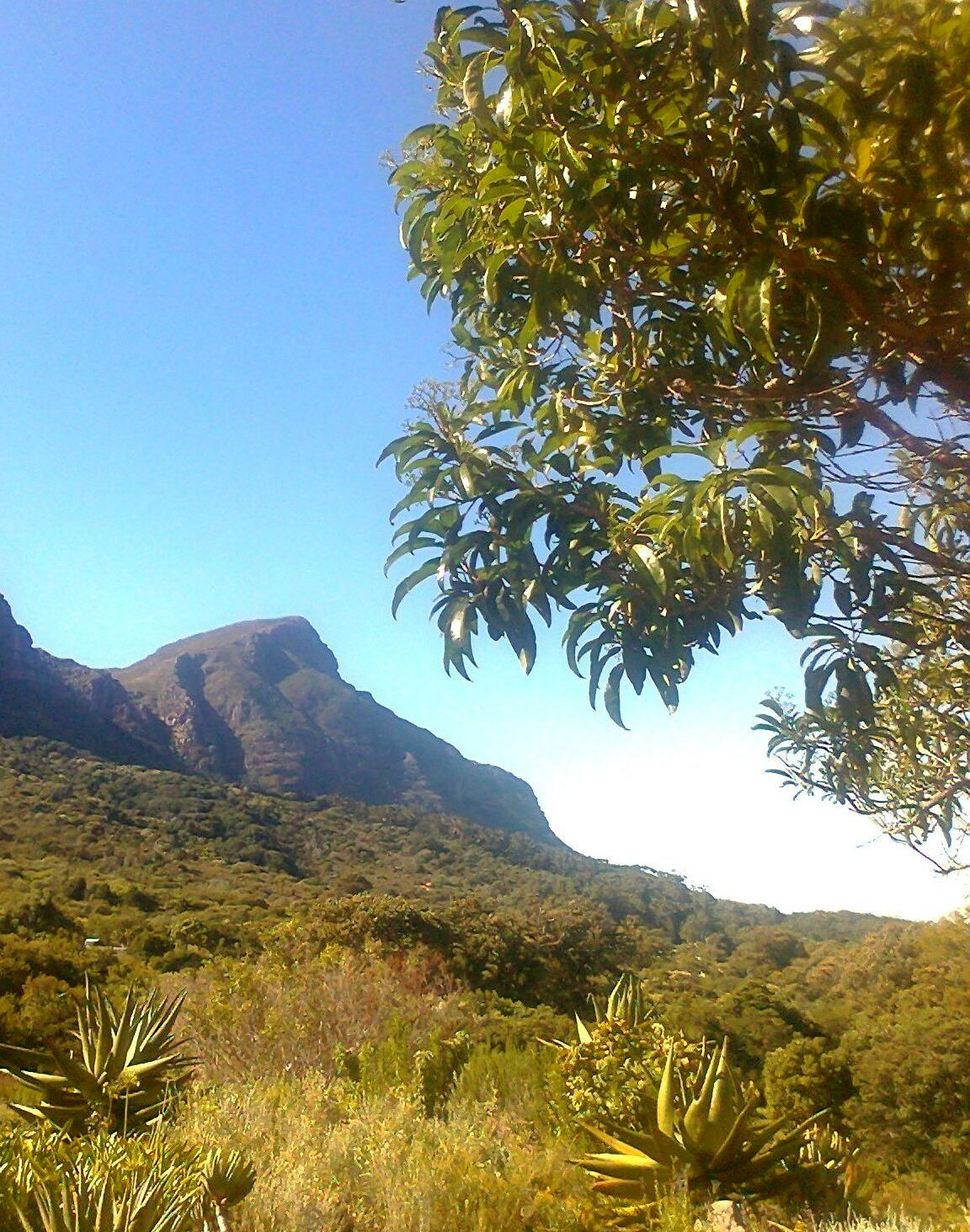 Nuxia floribunda tree - Kirstenbosch